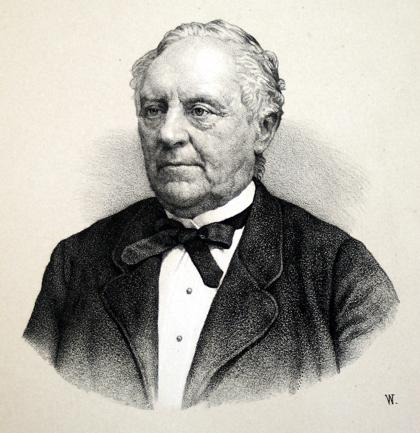 Portrait of Frans Henrik Kockum d.ä. from the book "Svenska industriens män" (1875)